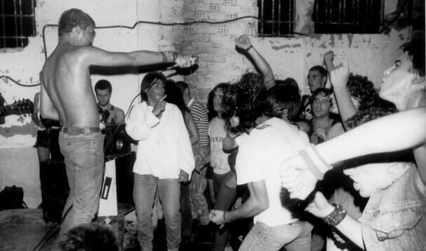 Concert of Cicatriz at a youth squat hall in Hondarribia. Cicatriz was a punk rock band, active from 1984 to 1994.